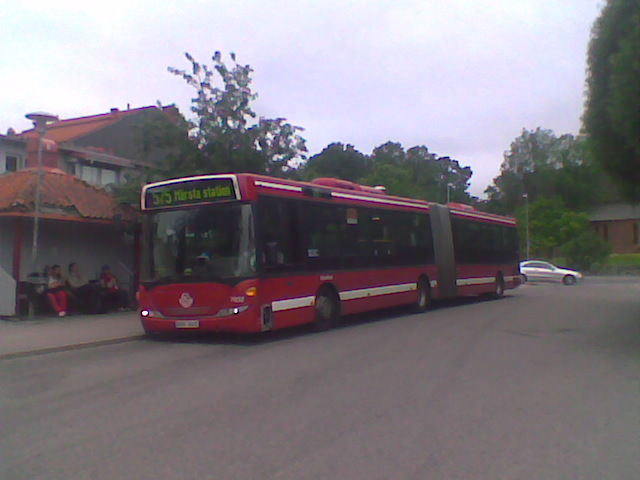 A Scania OmniLink in Sigtuna, Sweden.